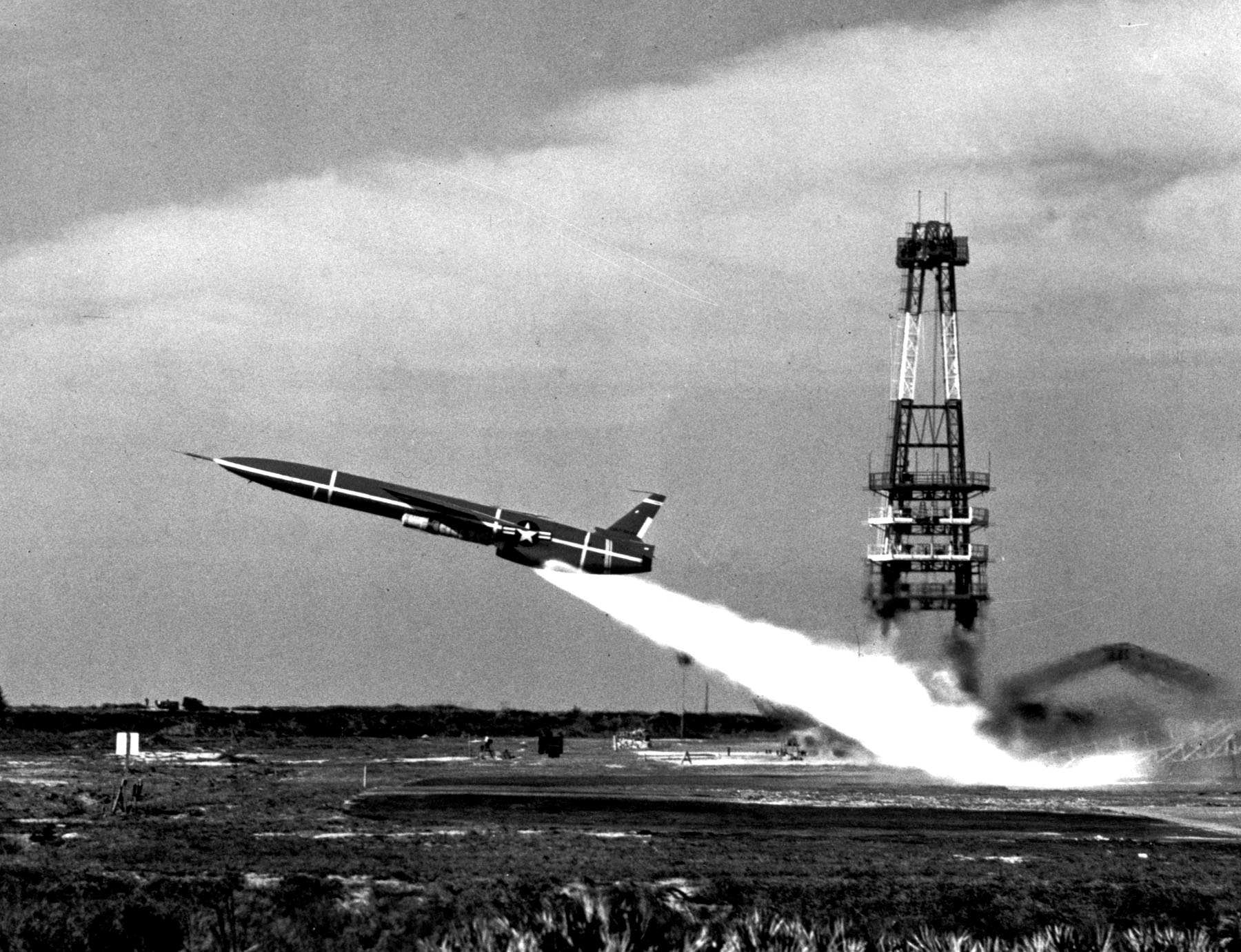 Northrop SM-62 Snark